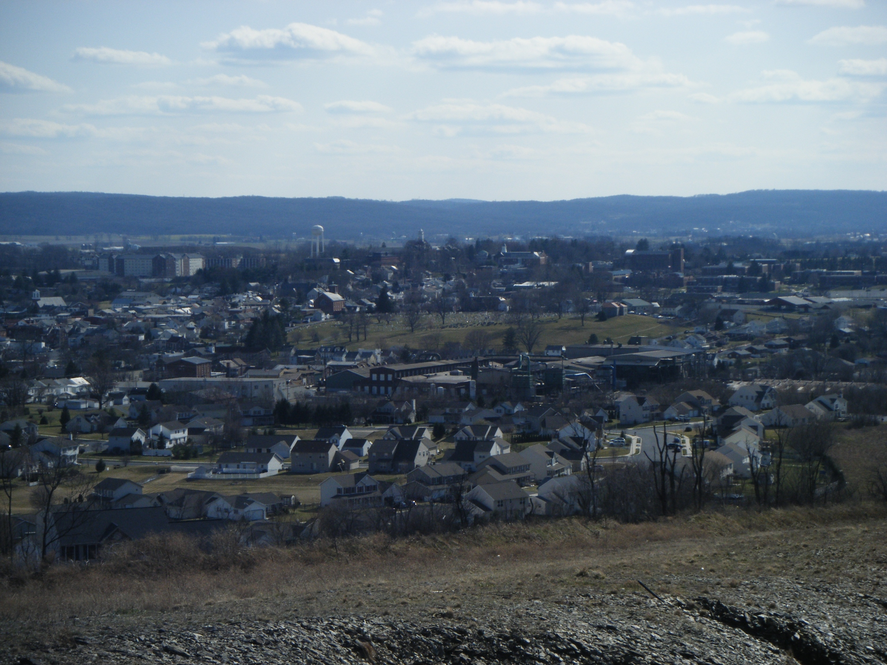 A view of Kutztown, Pennsylvania from a hill to the north of town